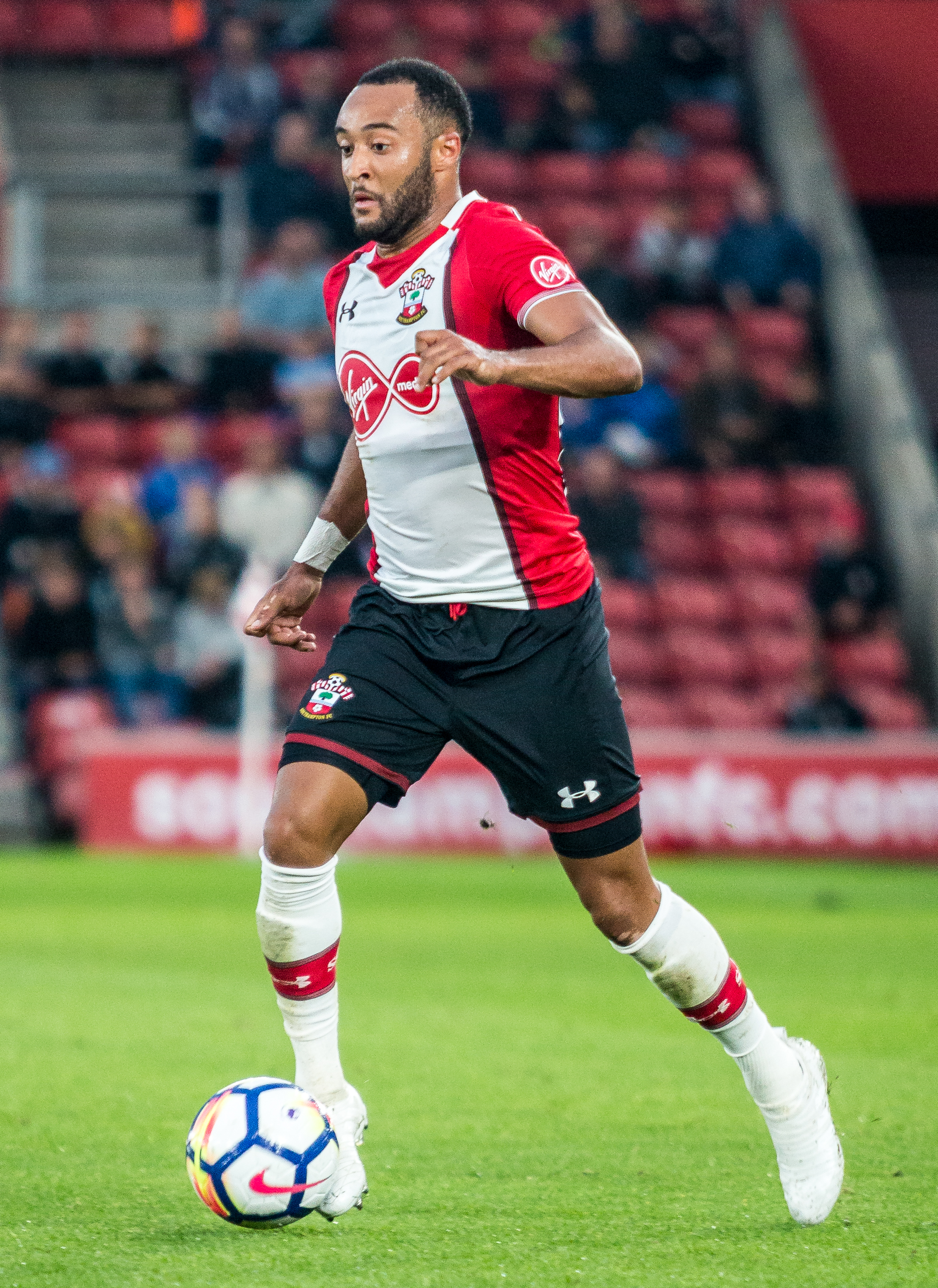 Pre-season friendly Wednesday 2 August 2017 Image by Lewis Commons